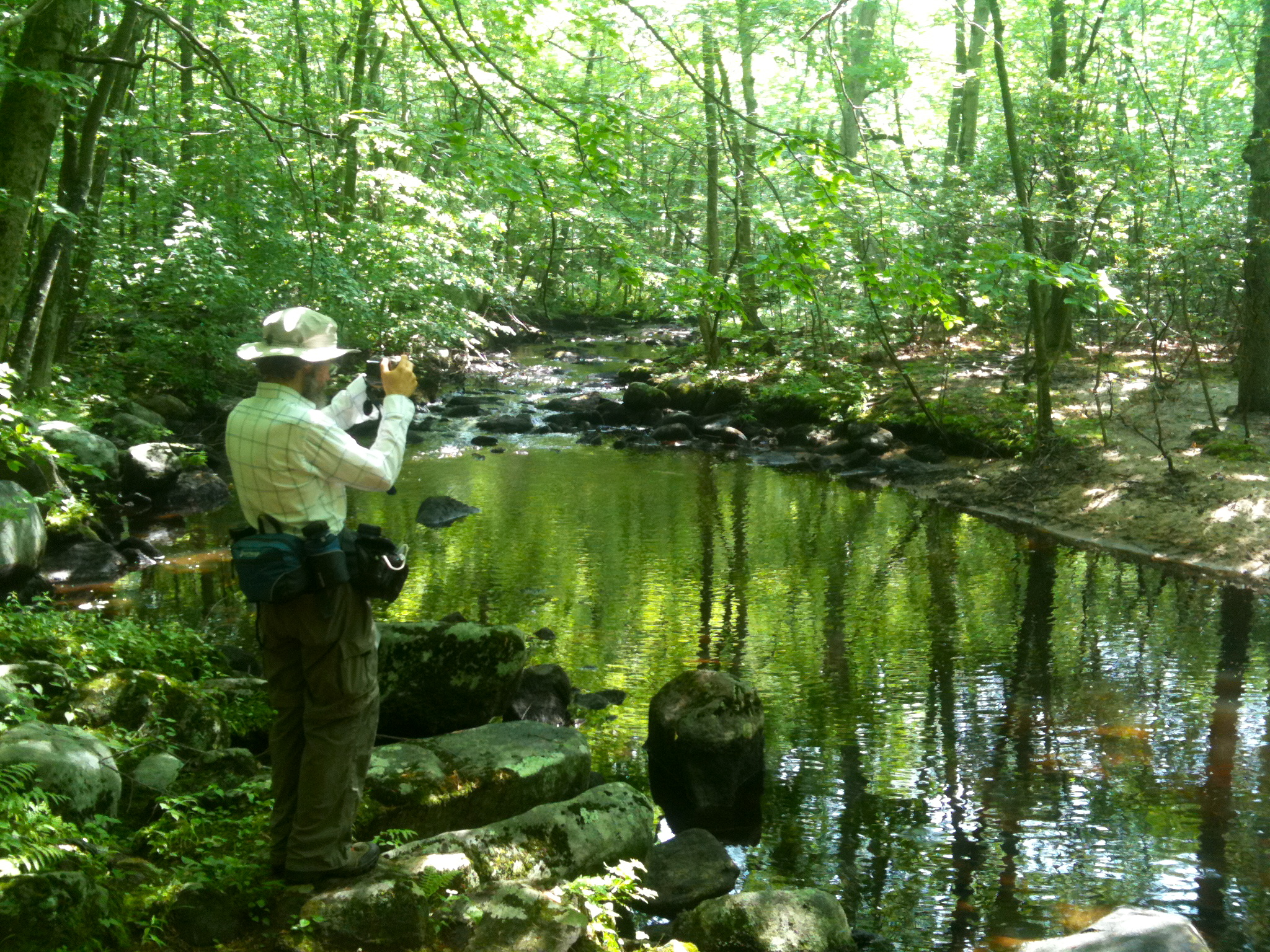 Menunkatuck Blue-Blazed (CFPA) Trail. Vernal pond along the Menunkatuck Trail in the Timberlands near the Iron Stream. Timberlands is forested preserved open space owned by the Town of Guilford Connecticut and managed by the Town's Conservation Committee.